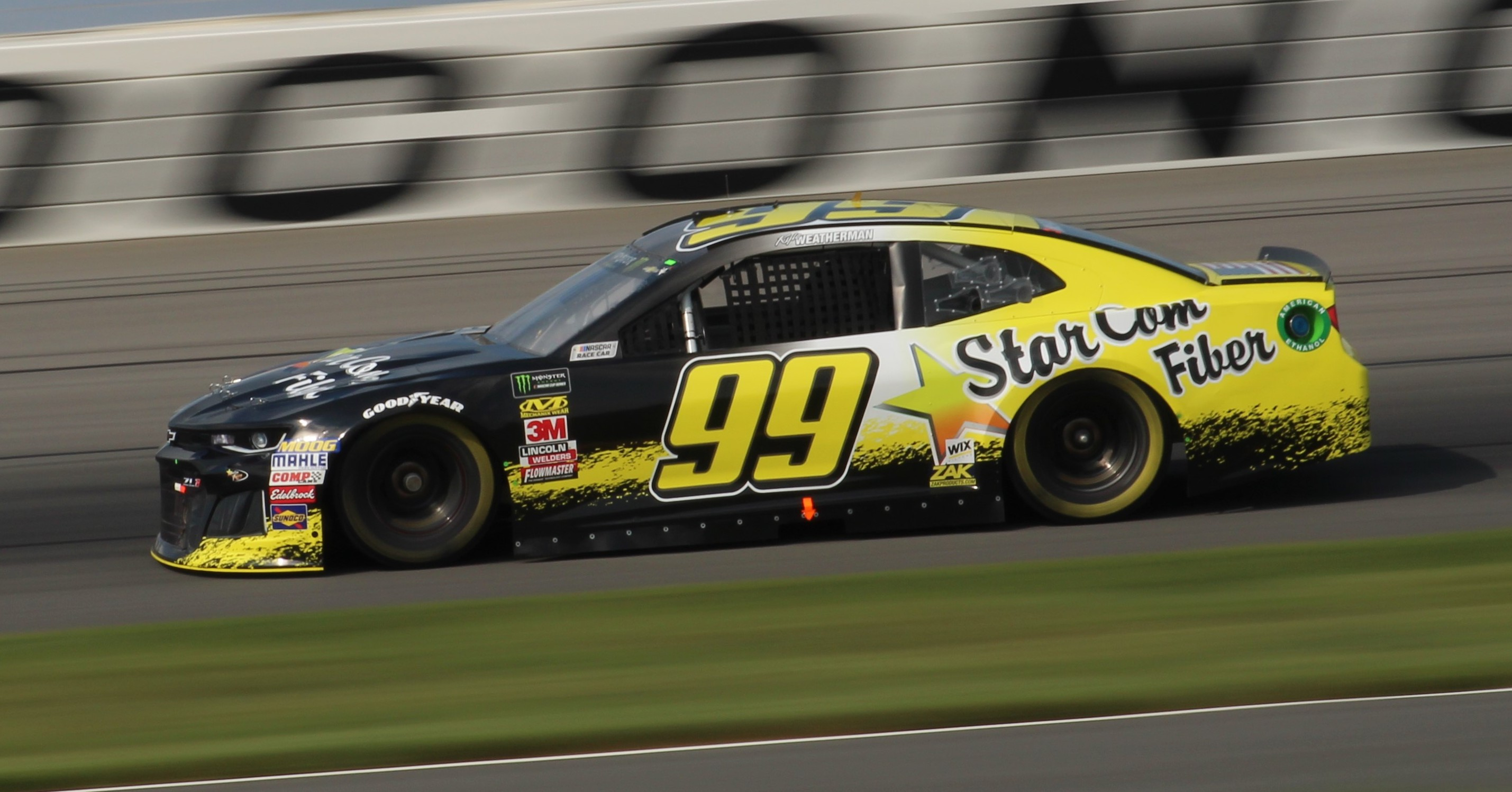 Kyle Weatherman's No. 99 StarCom Fiber Chevrolet at Pocono Raceway in 2018